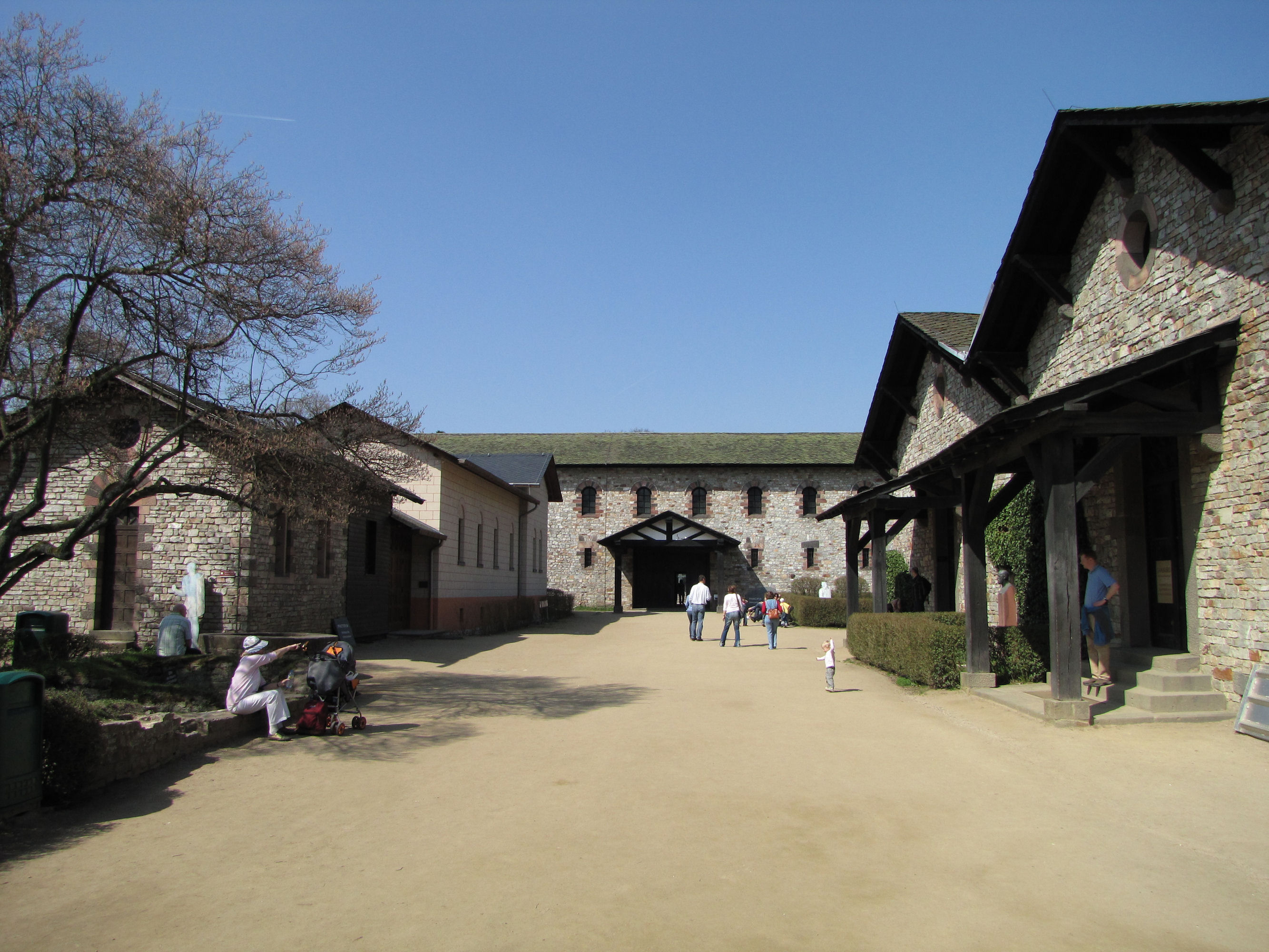 Cohort Fort Saalburg